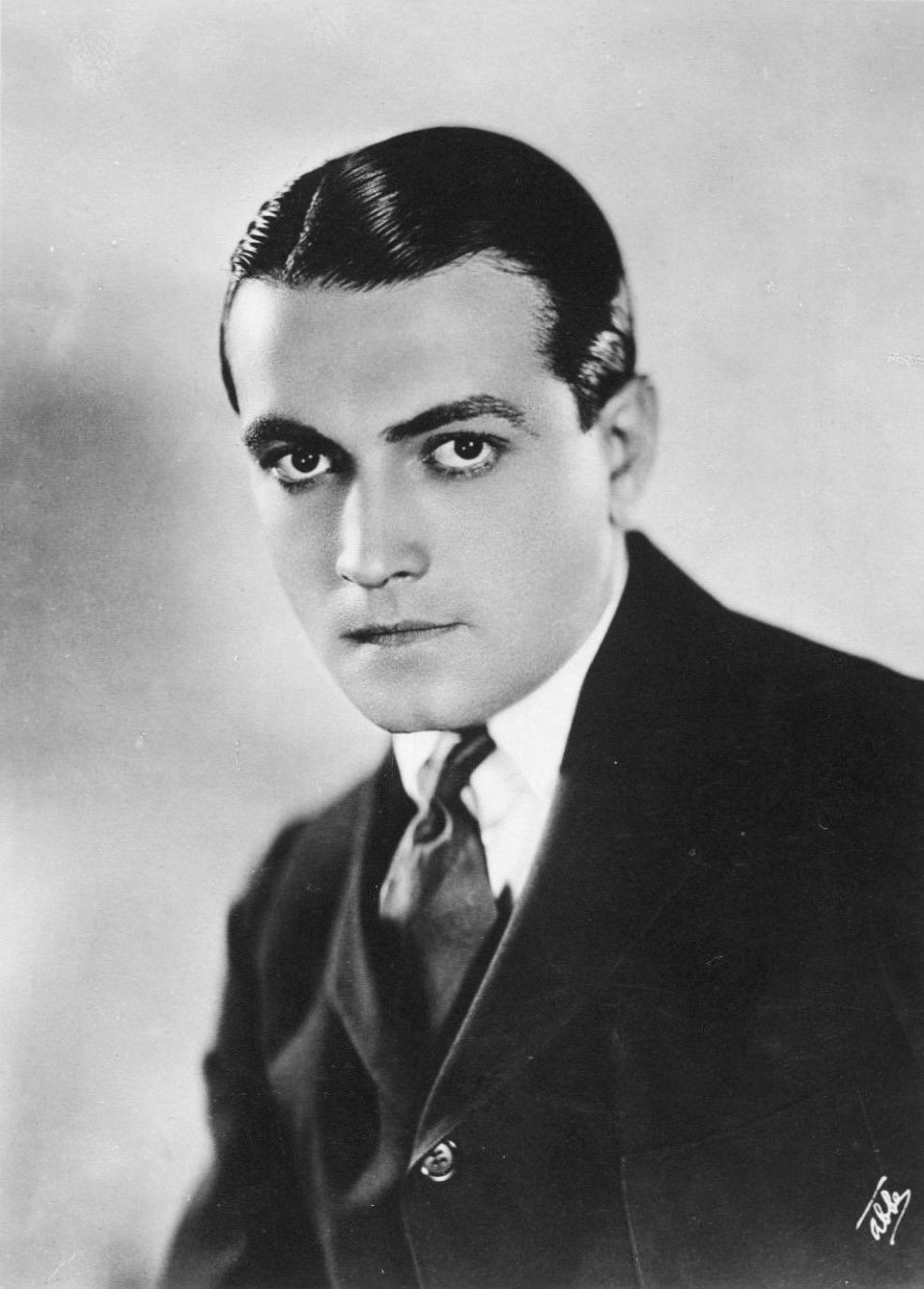 Portrait of Richard Barthelmess by James Abbe on a German Ross Verlag postcard, c. 1923. Photograph was taken by 1923.